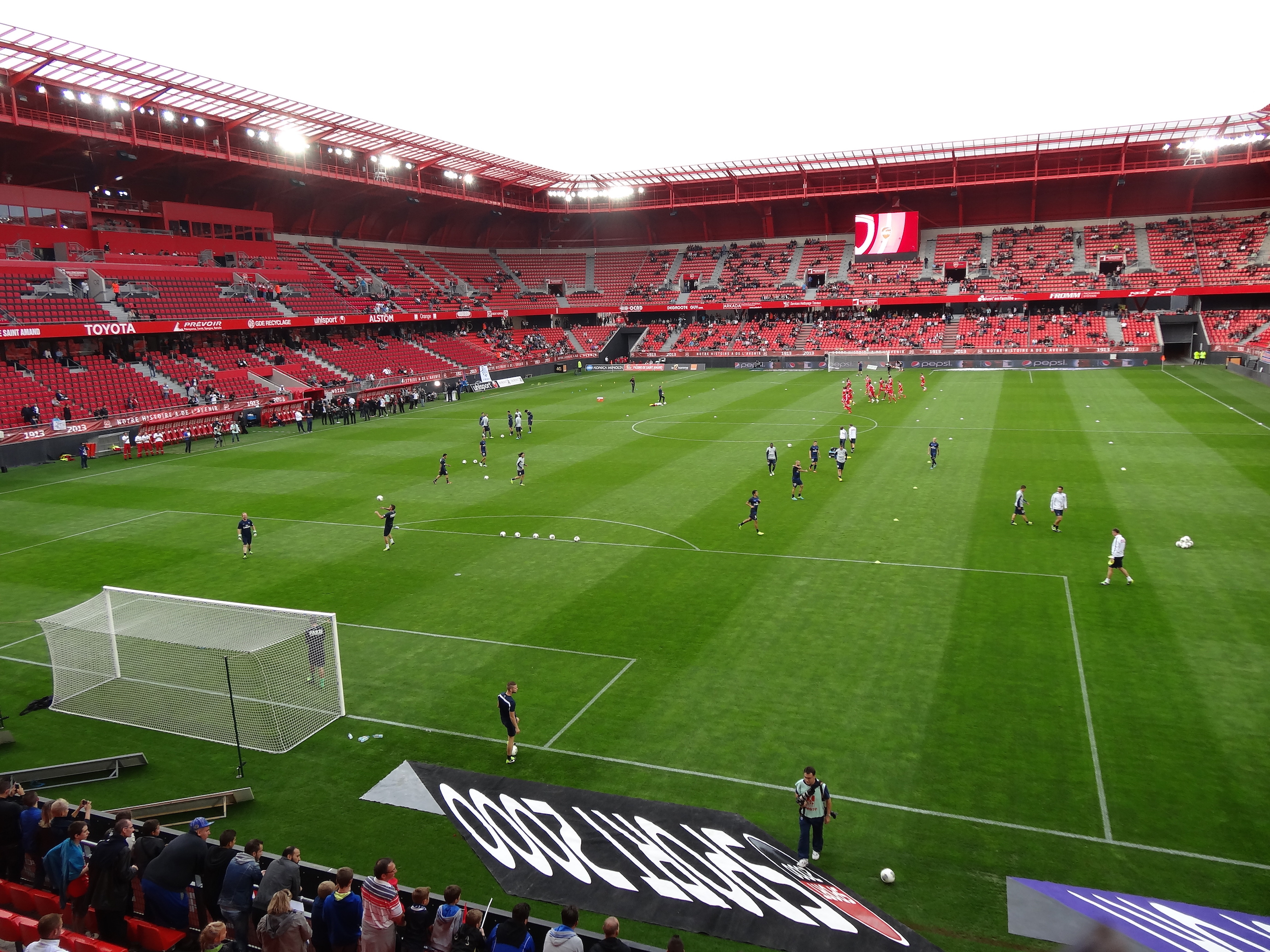 Hainaut Stadium (2013)